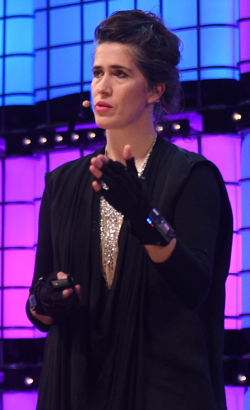 7 November 2018; Imogen Heap, Mycelia on Centre Stage during day two of Web Summit 2018 at the Altice Arena in Lisbon, Portugal. Photo by David Fitzgerald/Web Summit via Sportsfile